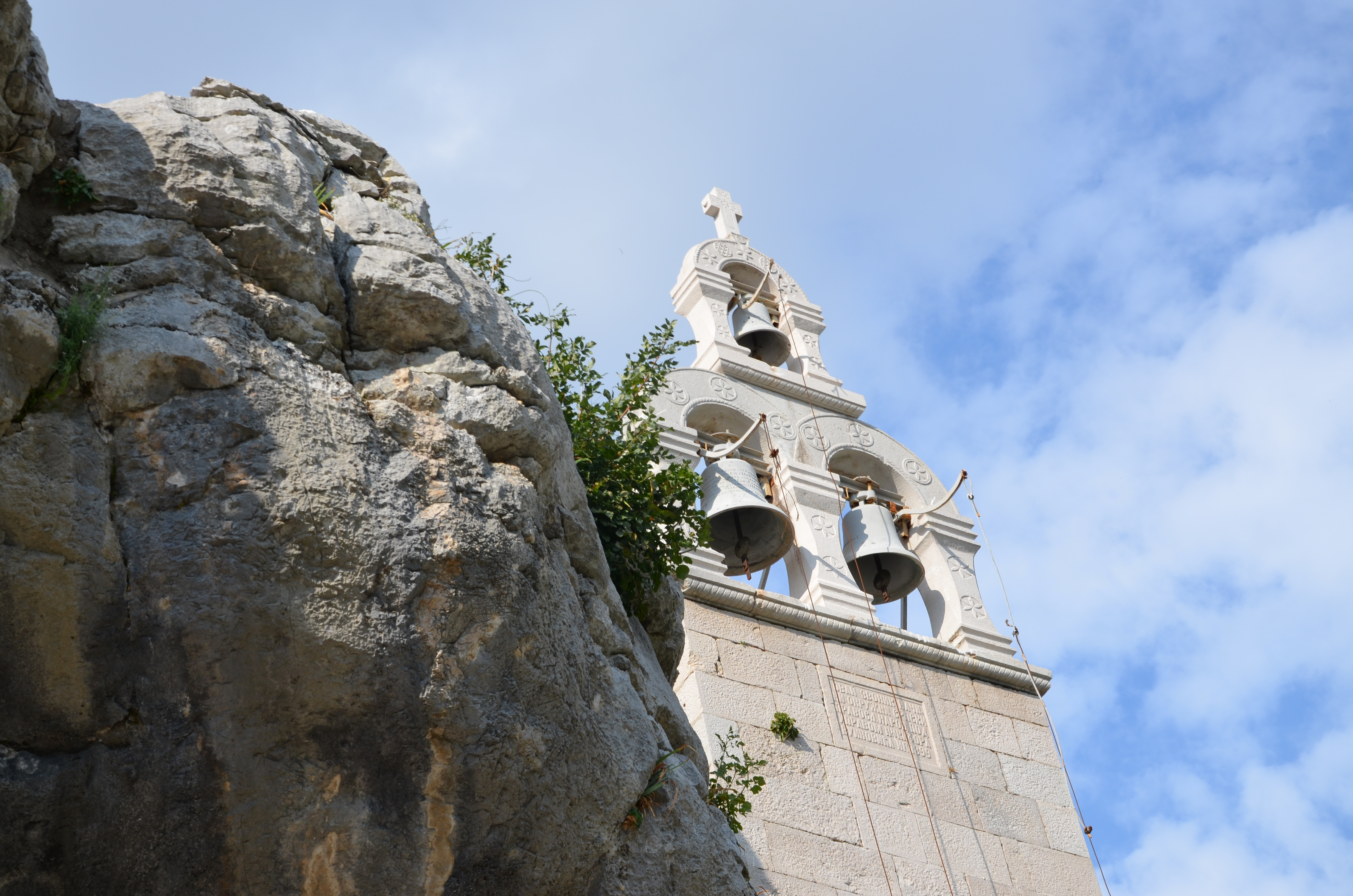 This image was uploaded as part of Trace of Soul 2015.